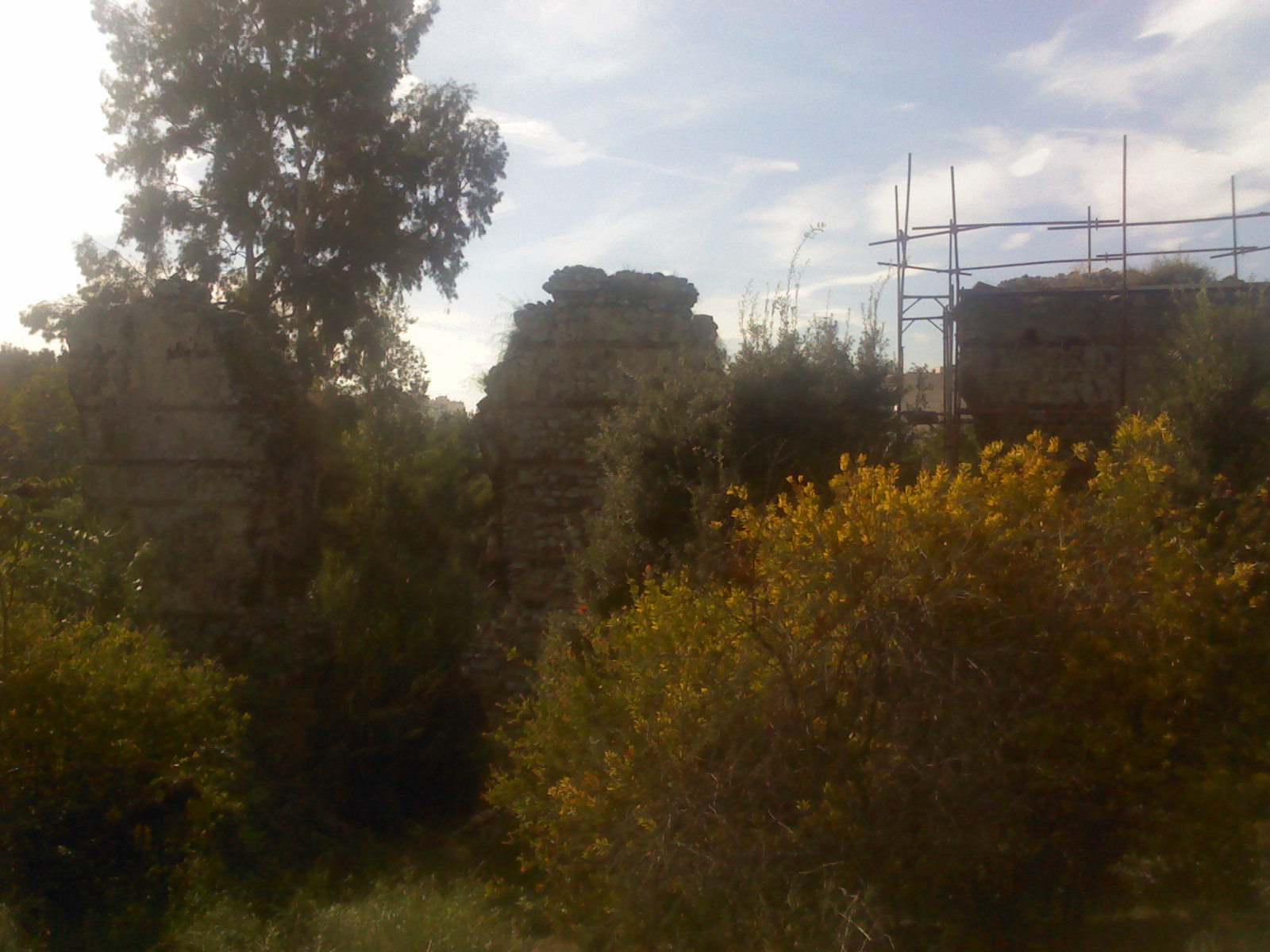 Aqueduct Adrianeio Nea Ionia